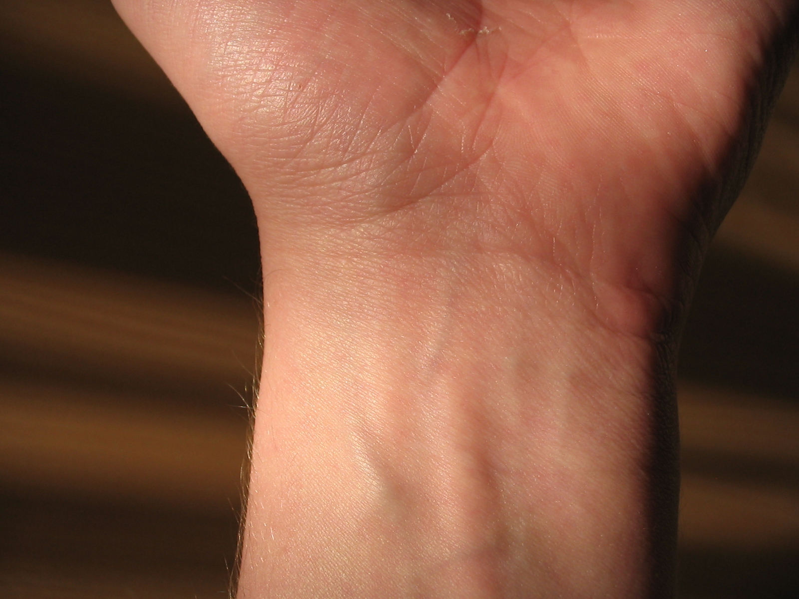 wrist